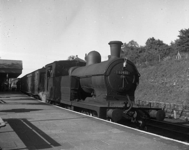 Chesham station, Buckinghamshire In 1957, some of the furthest-flung reaches of the London Underground system were still worked by steam. Here, a 4-4-2T locomotive of LNER class C13 (GCR Class 9K) waits at Chesham with a train for Chalfont.